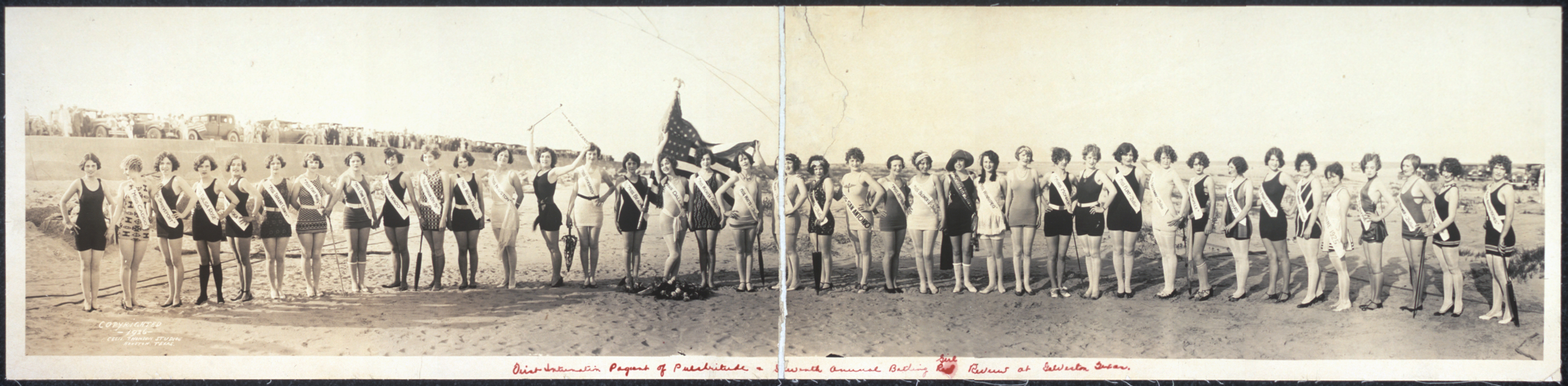 First International Pageant of Pulchritude & Seventh Annual Bathing Girl Review at Galveston, Texas.